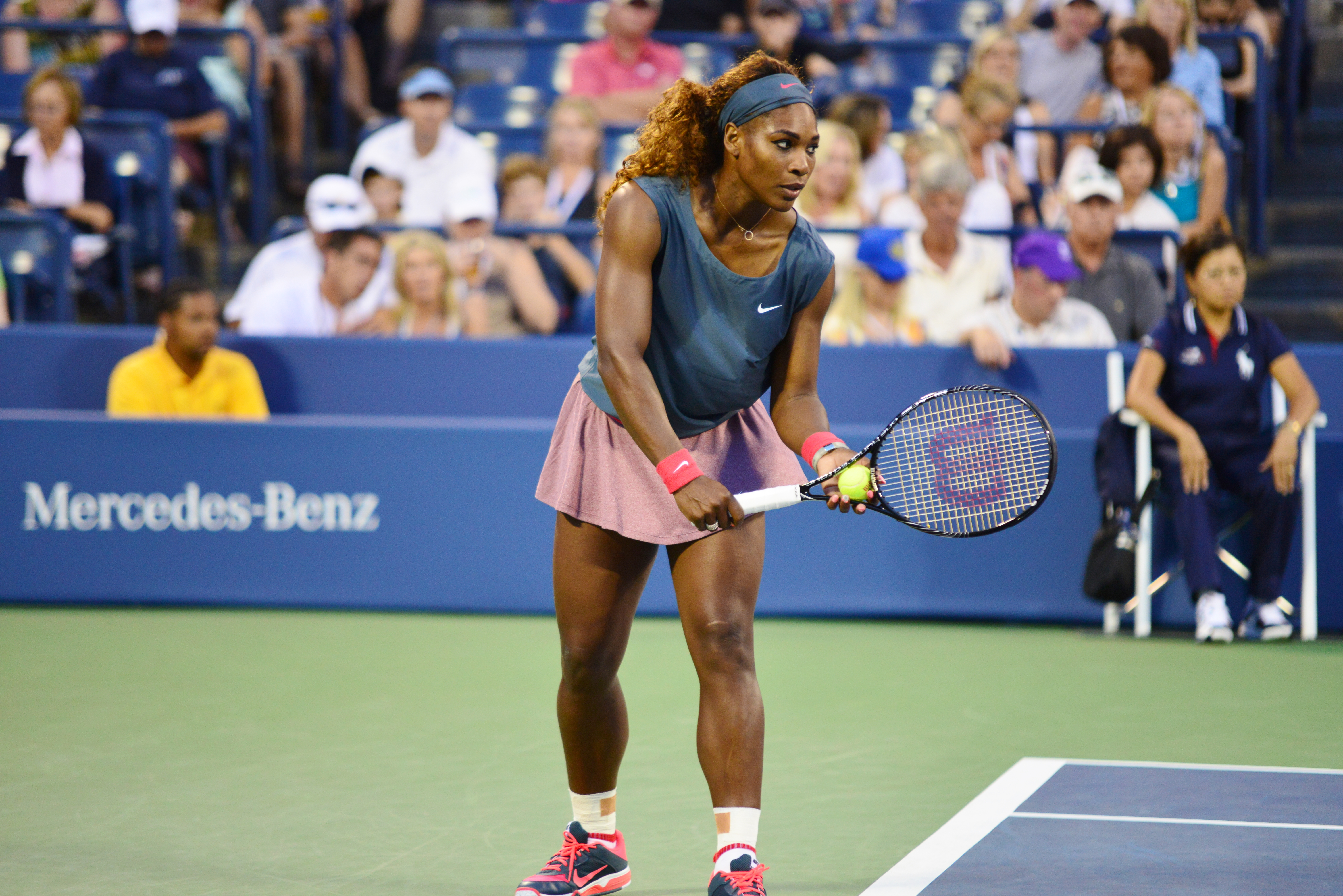 1st round doubles action from the Women's draw at the 2013 US Open. Serena and Venus Williams defeated Silvia Soler-Espinosa and Carla Suarez Navarro; 6-7(5), 6-0, 6-3